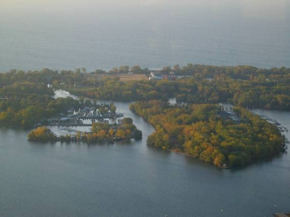 Toronto Islands as seen from CN Tower